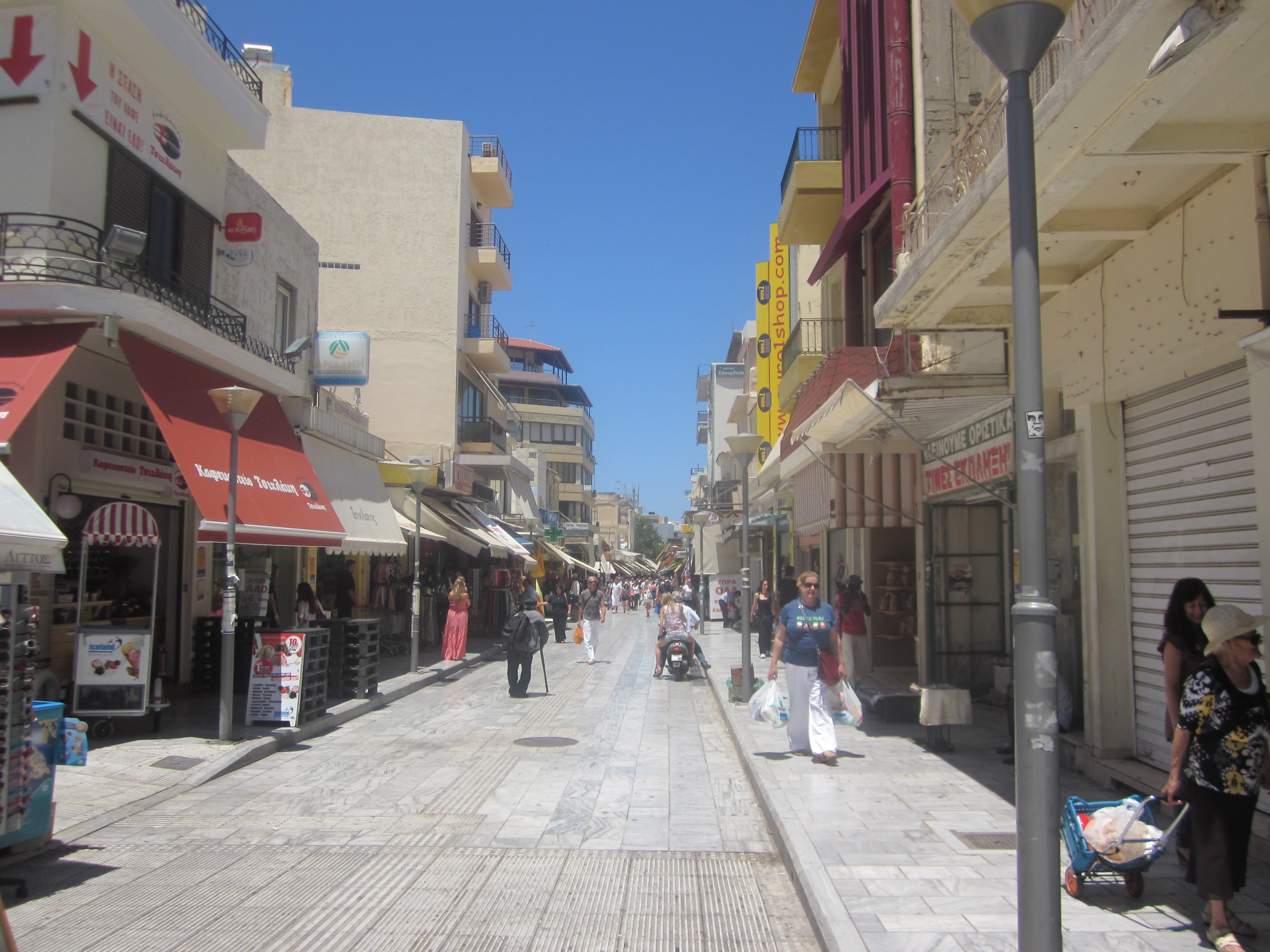 The downtown of Heraklion (Iraklion) in island of Crete